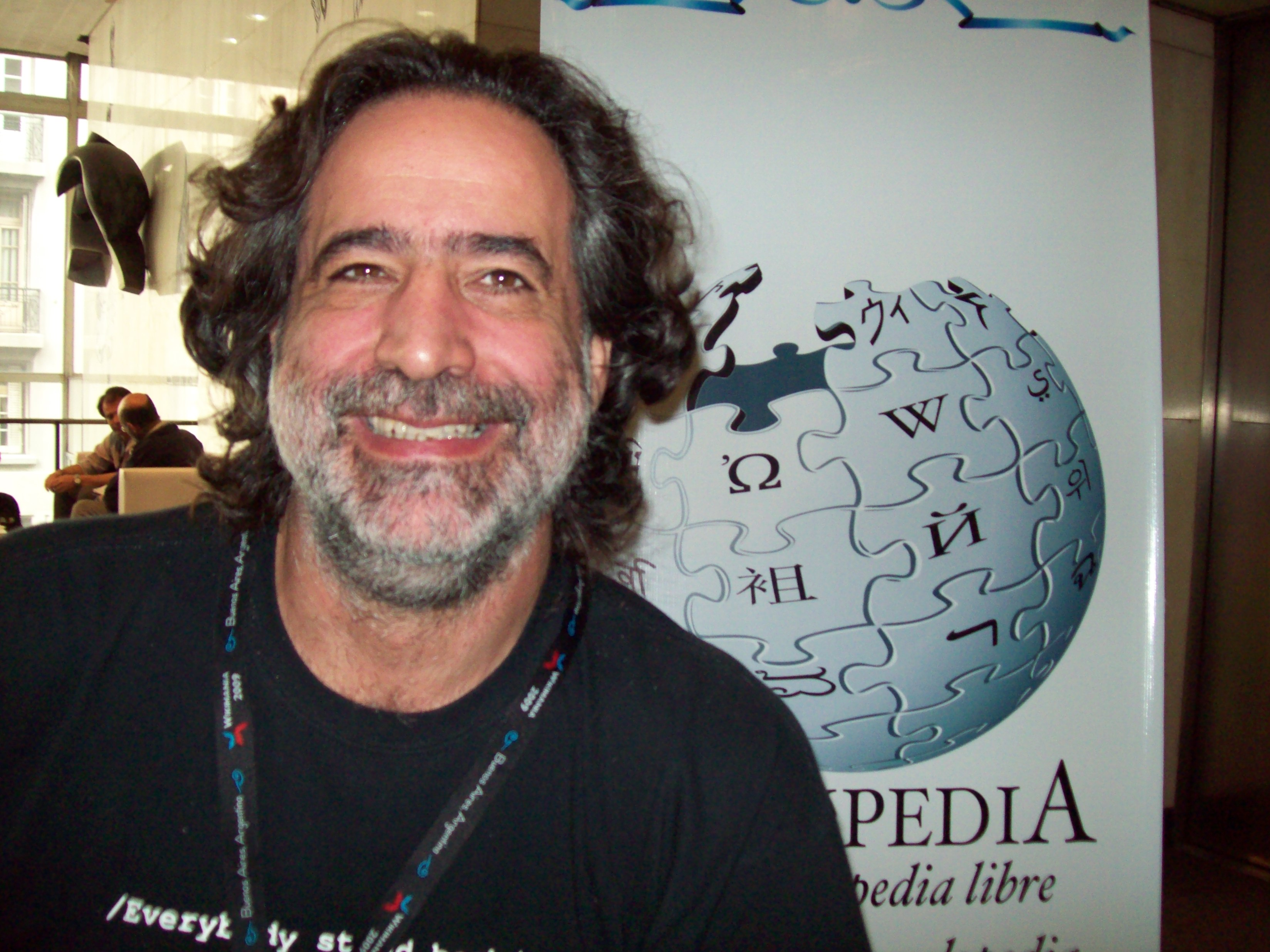 Federico Heinz at Wikimania 2009